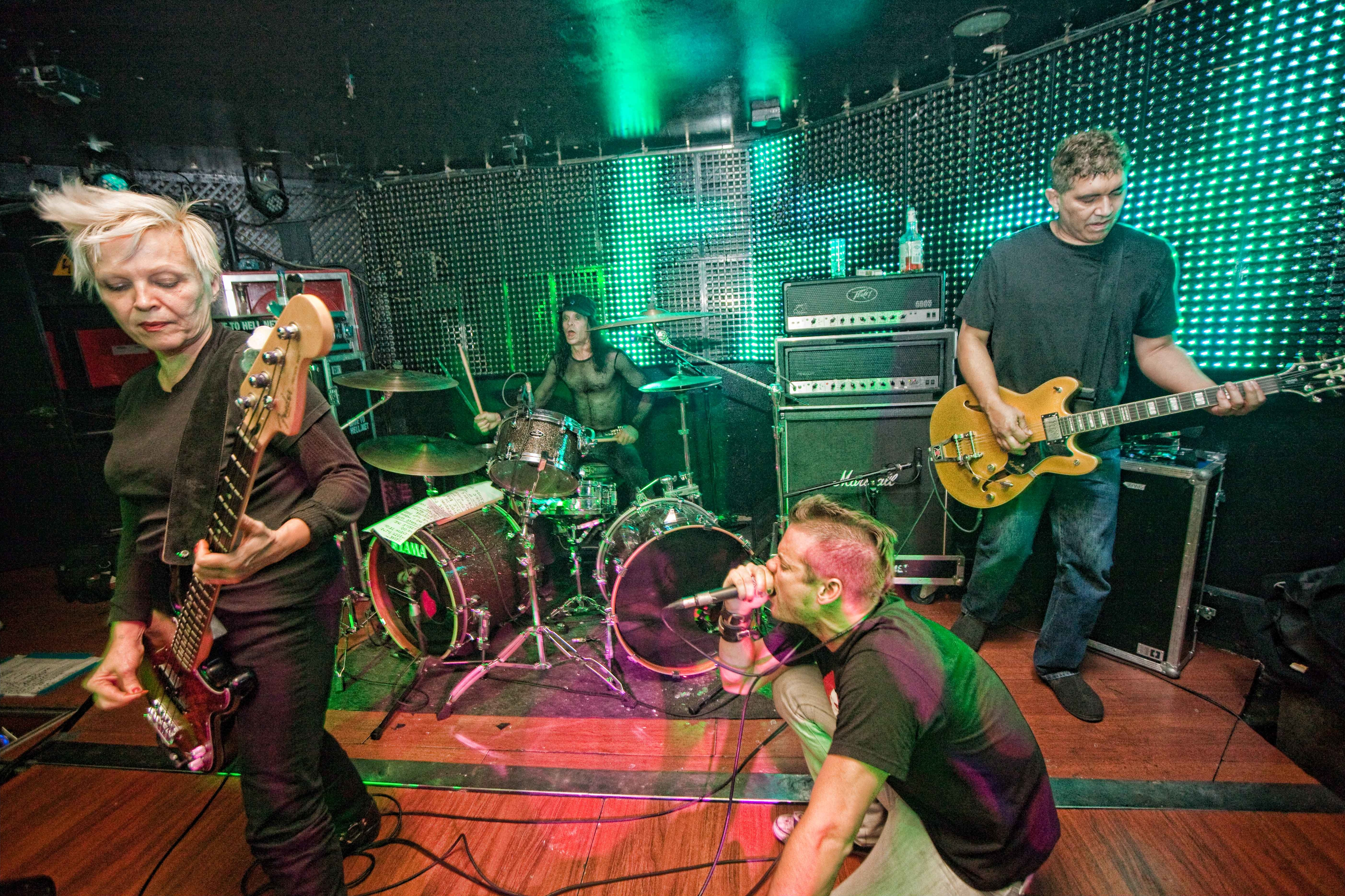 The band The Germs performing at Sala Boite in Madrid on December 18, 2009. Band members pictured, from left to right, are Lorna Doom, Don Bolles, Shane West and Pat Smear.